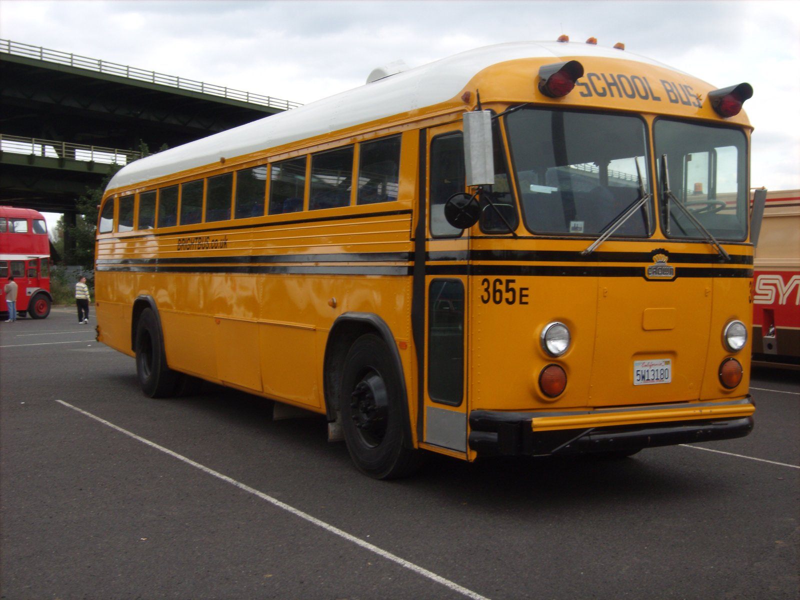 1977-1991 Crown Coach Supercoach school bus seen at the Meadowhall Rally, Sheffield 2008.